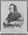 Wood engraving of 19th century English humanitarian Caroline Chisholm from Harper's Monthly.